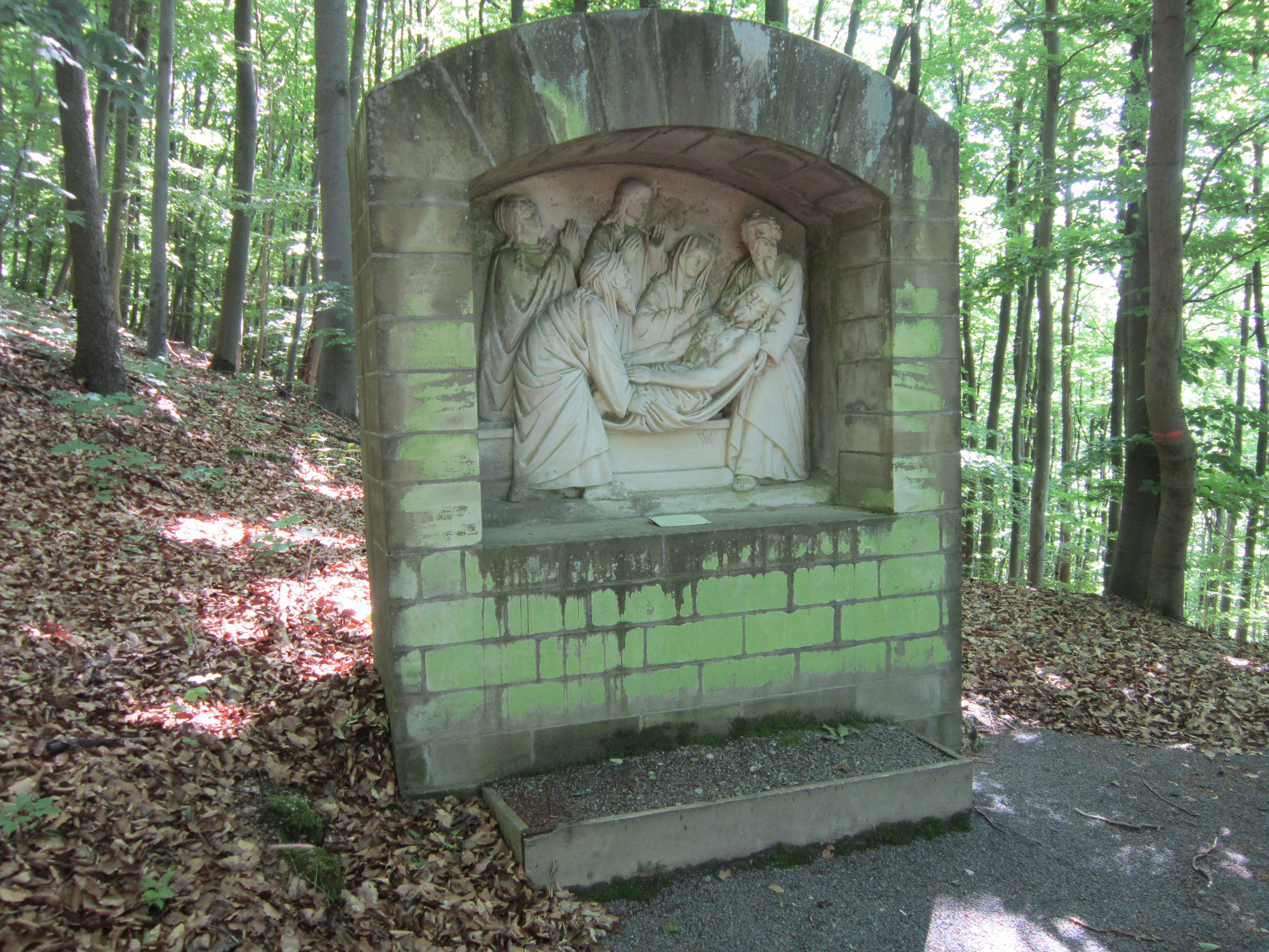 14th Station of the Way of the Cross of the "Stationsberg" in the German spa of Bad Kissingen in Lower Franconia (Bavaria).